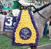 Picture of Breeders' Cup Blanket of Flowers